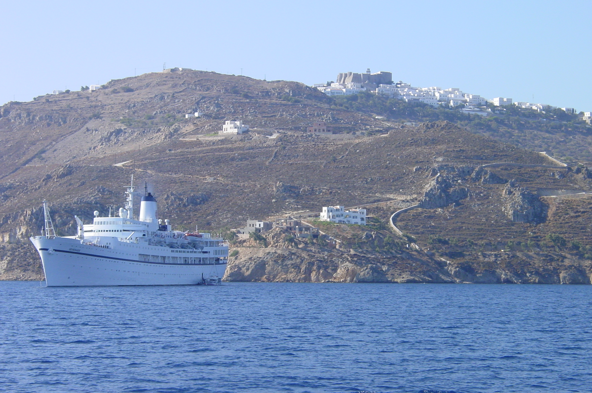 Passenger ship SERENADE (ex JEAN MERMOZ) at Patmos Island IMO number: 5171115